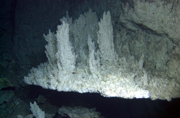 A 5-foot-wide flange, or ledge, on the side of a chimney in the Lost City Field is topped with dendritic carbonate growths that form when mineral-rich vent fluids seep through the flange and come into contact with the cold seawater.